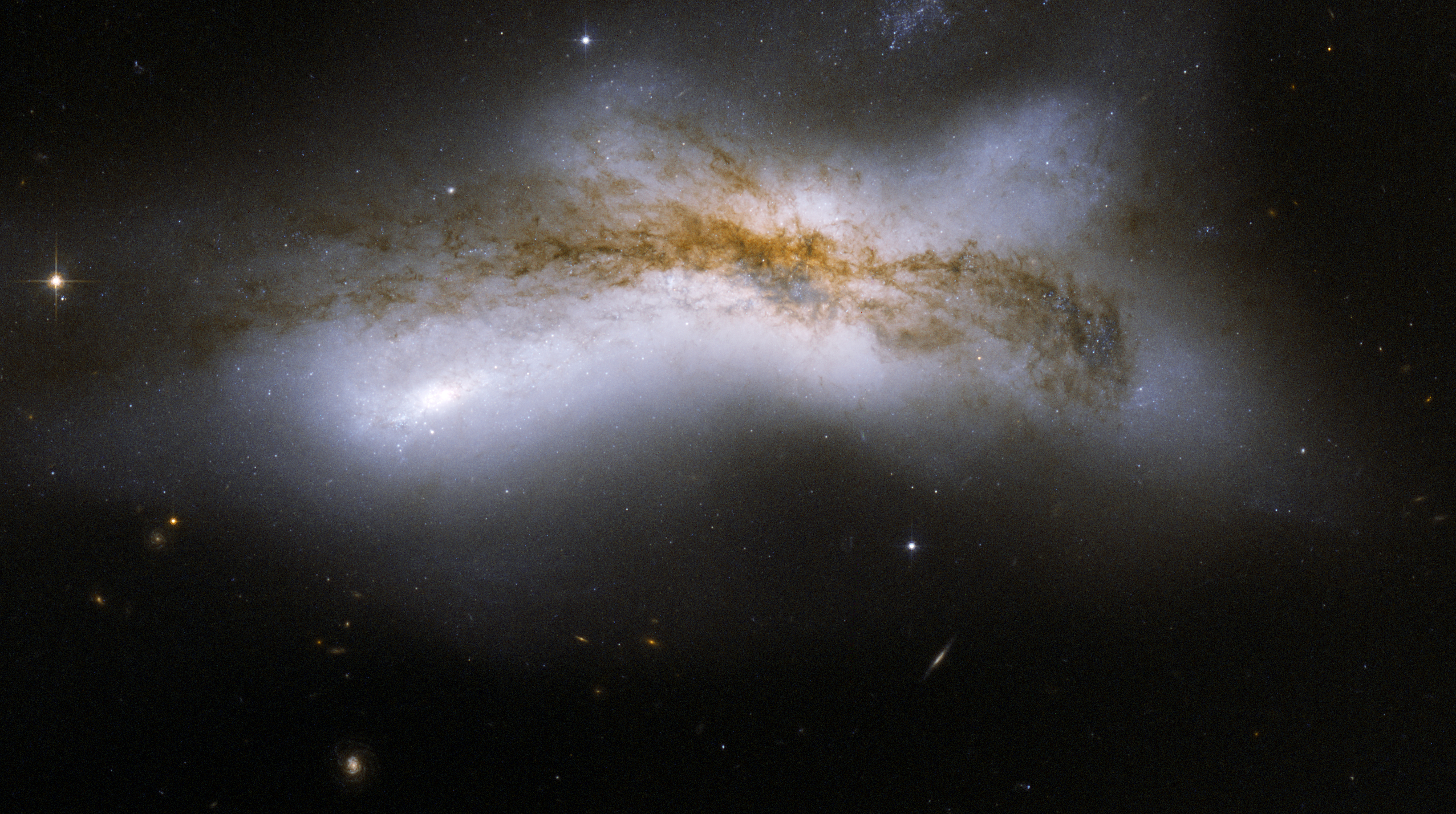 NGC 520 is the product of a collision between two disk galaxies that started 300 million years ago. It exemplifies the middle stages of the merging process: the disks of the parent galaxies have merged together, but the nuclei have not yet coalesced. It features an odd-looking tail of stars and a prominent dust lane that runs diagonally across the center of the image and obscures the galaxy. NGC 520 is one of the brightest galaxy pairs on the sky, and can be observed with a small telescope toward the constellation of Pisces, the Fish, having the appearance of a comet. It is about 100 million light-years away and about 100,000 light-years across. The galaxy pair is included in Arp's catalog of peculiar galaxies as Arp 157. This image is part of a large collection of 59 images of merging galaxies taken by the Hubble Space Telescope and released on the occasion of its 18th anniversary on 24th April 2008. About the objectObject nameNGC 520, Arp 157, VV 231, KPG 031Object descriptionInteracting GalaxiesPosition (J2000)01 24 35.42 +03 47 55.0ConstellationPiscesDistance100 million light-years (50 million parsecs)About the dataData descriptionThe Hubble image was created using HST data from proposal 9735: B. Whitmore (STScI)InstrumentACS/WFCExposure date(s)October 22, 2004Exposure time77 minutesFiltersF435W (B), F555W (V), and F814W (I)